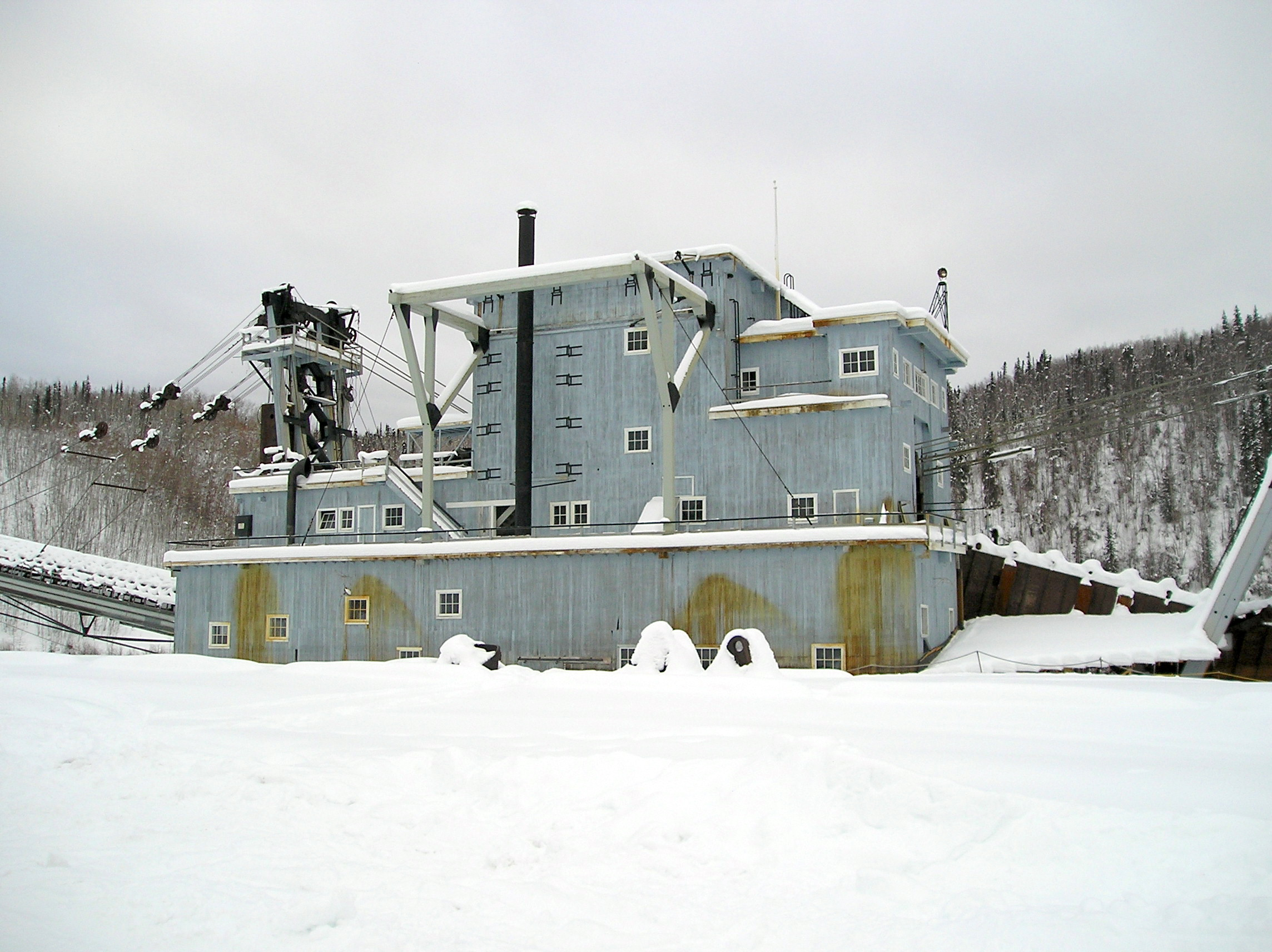 Gold dredger, Dawson City, Yukon Territory, Canada